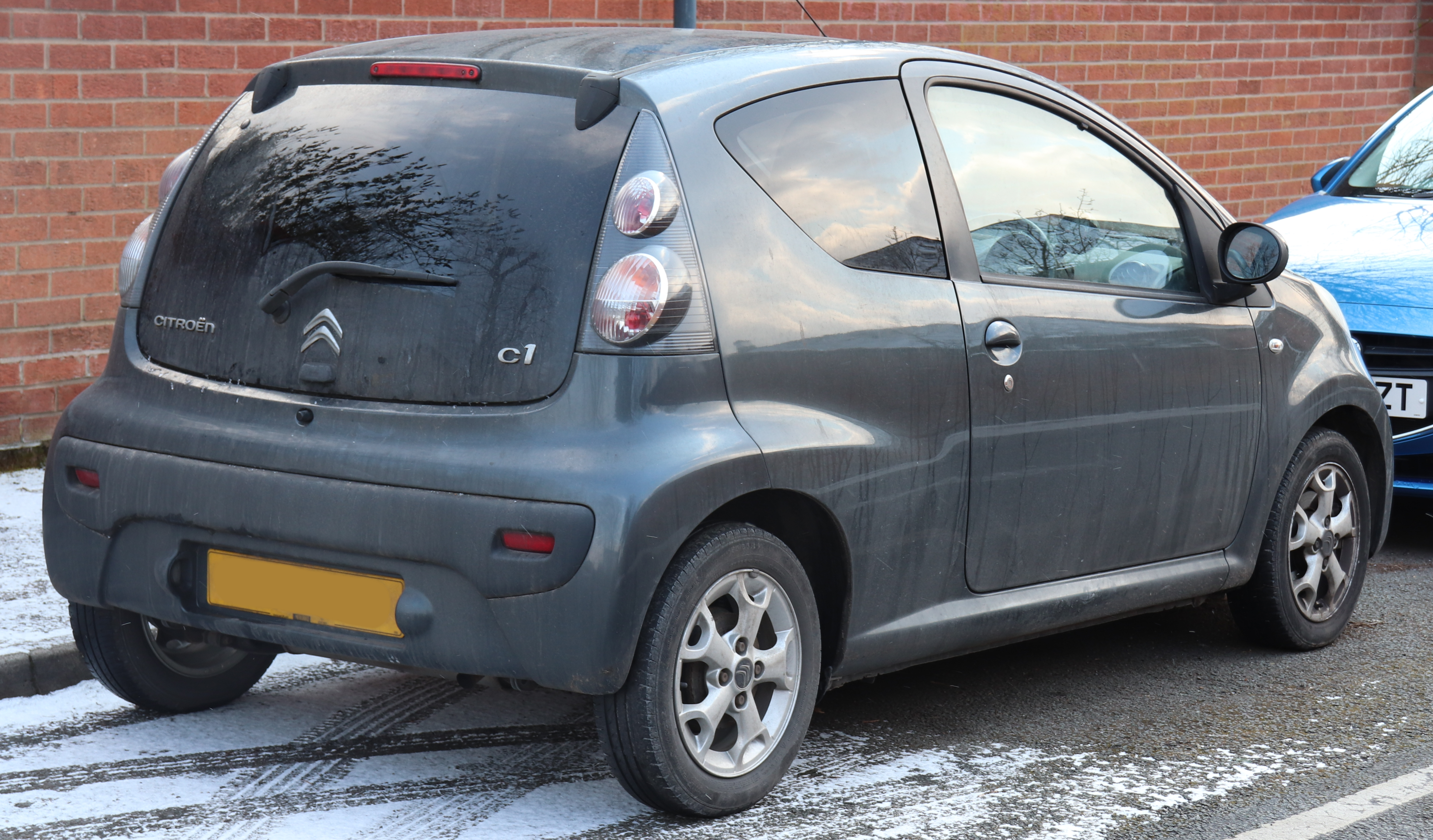 2012 Citroen C1 VTR+ facelift 1.0 Rear Taken in Leamington Spa